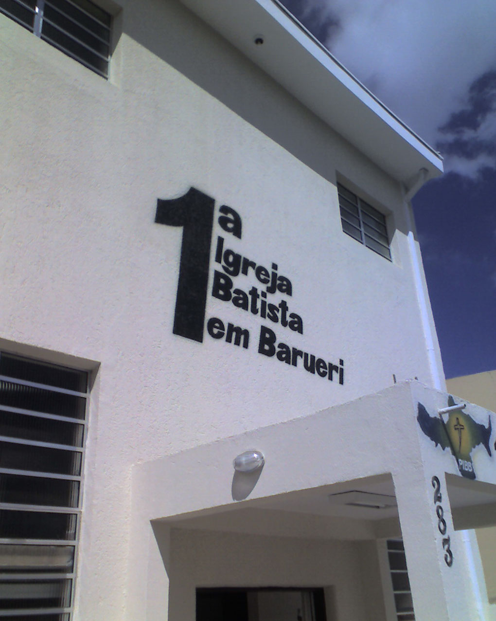 Primeira Igreja Batista em Barueri, front view